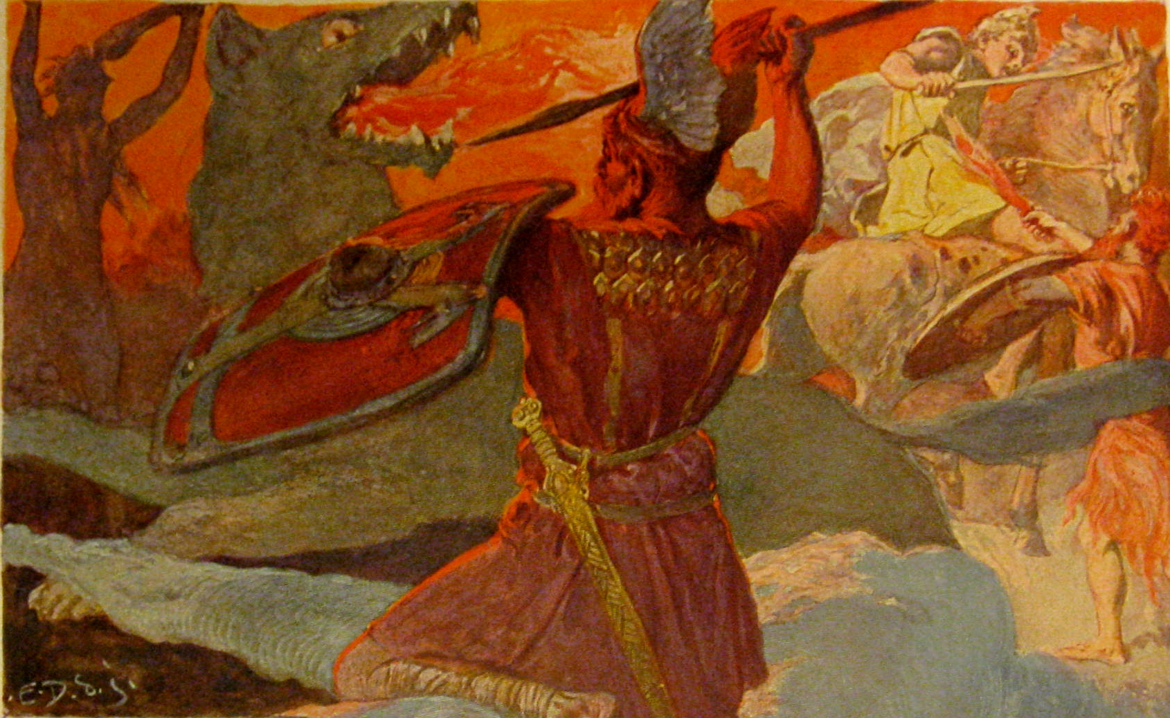 Odin und Fenriswolf Freyr und Surt. A scene from Ragnarök, the final battle between Odin and Fenrir and Freyr and Surtr.